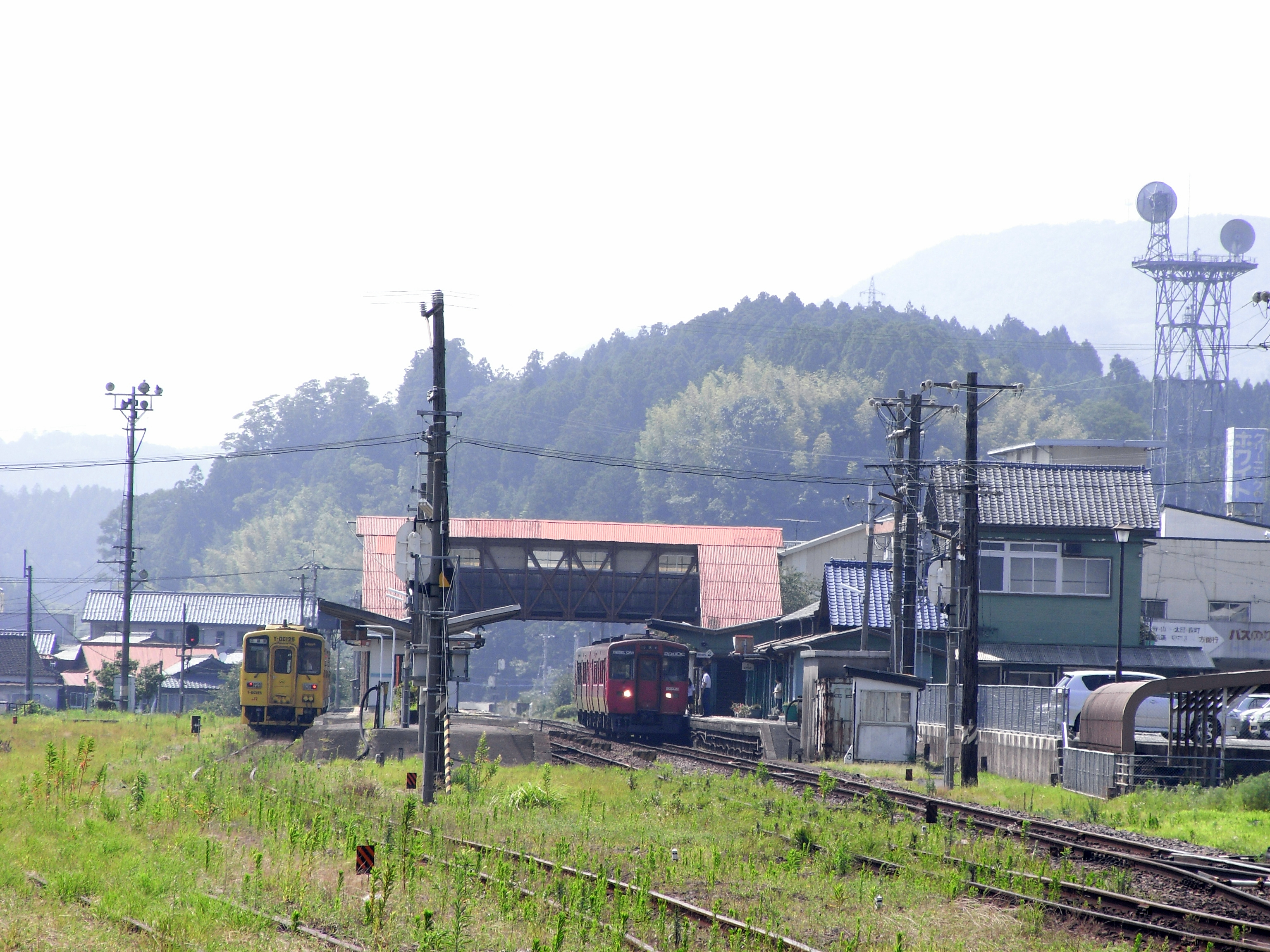 Bungo-Mori Station in Kusu, Ōita, Japan.